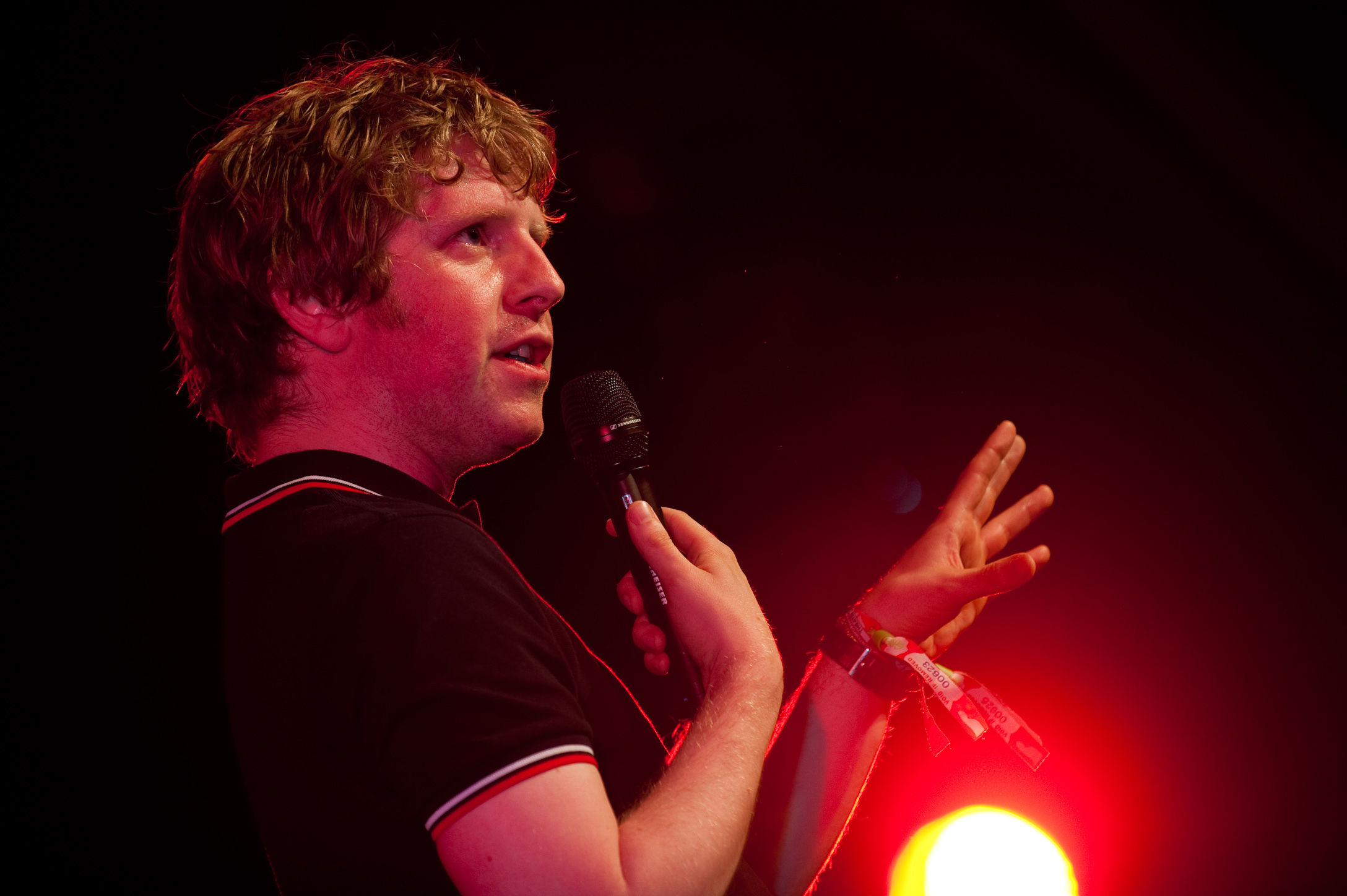 Josh Widdicombe performing at the Glastonbury Festival 2013